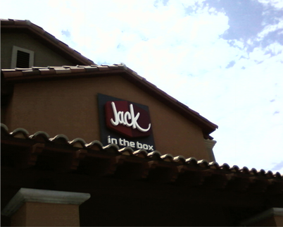 Jack In the Box with the new logo